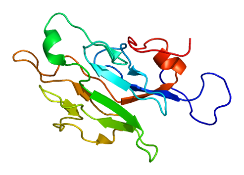 Structure of the RNF8 protein. Based on PyMOL rendering of PDB 2csw.